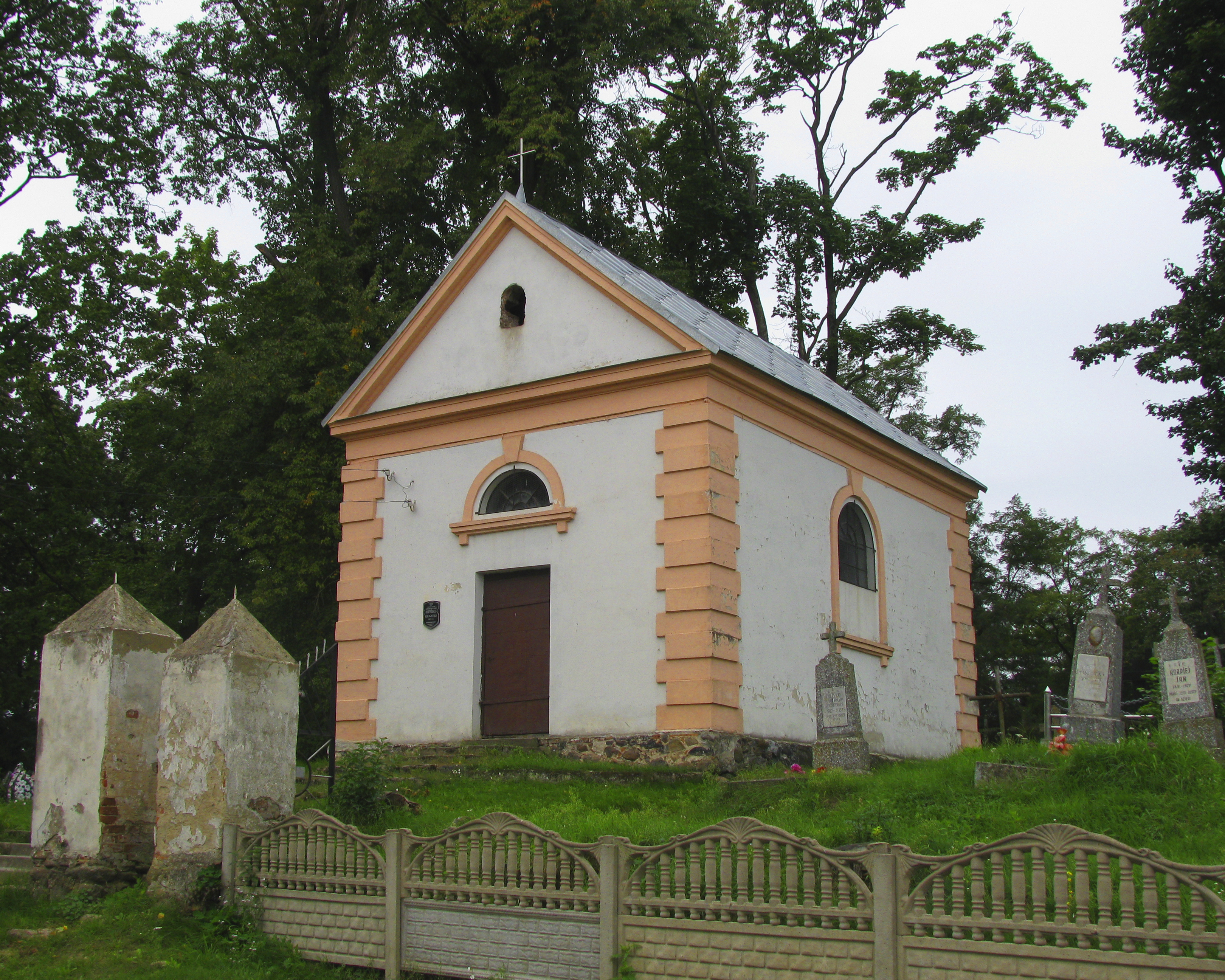 Беларуская (тарашкевіца): Капліца. г. Пружаны This is a photo of Belarusian heritage monument. Reference number: 113Г000586 ( WLM)